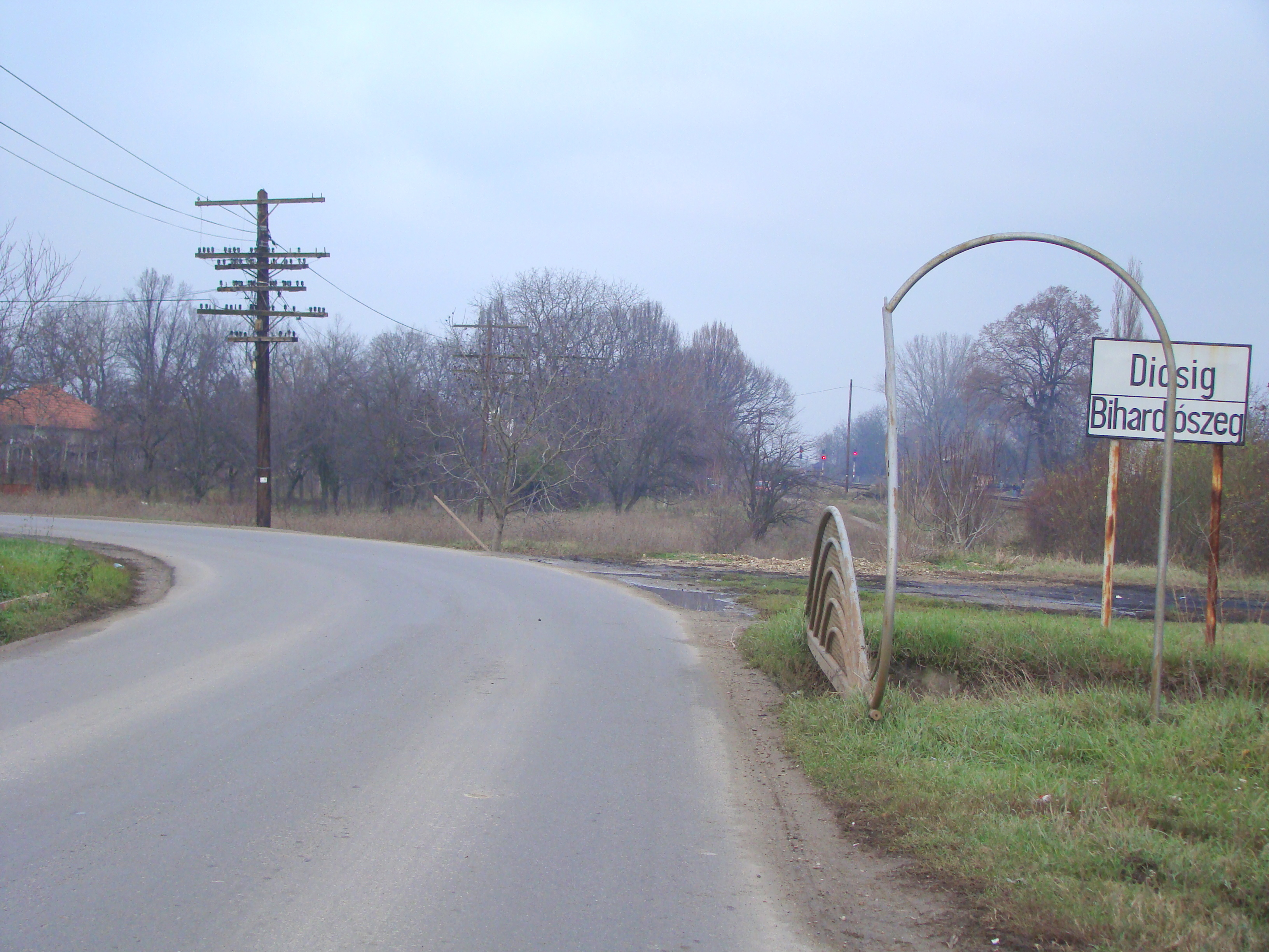 Diosig, Bihor county, Romania